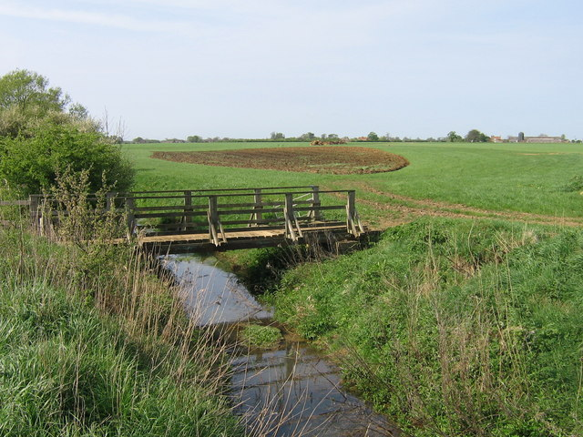 Vale of Pickering View of typical Vale of Pickering country. As the bed of an ancient pro-glacial lake the vale is very flat. The area was drained in the 19th century to create excellent farmland. The view shows a footbridge over Welldale Beck, a stream issuing as a spring at the base of the North York Moors.